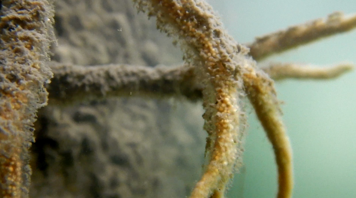 Gemmules of the freshwater sponge Spongilla lacustris (here in northern France) = resistant form of metabolic dormancy and appear in autumn.